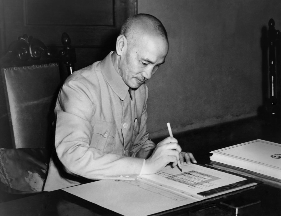 1945-8-24, Chiang Kai-shek ratified the Charter of the United Nations.